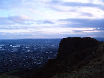 seamus kane